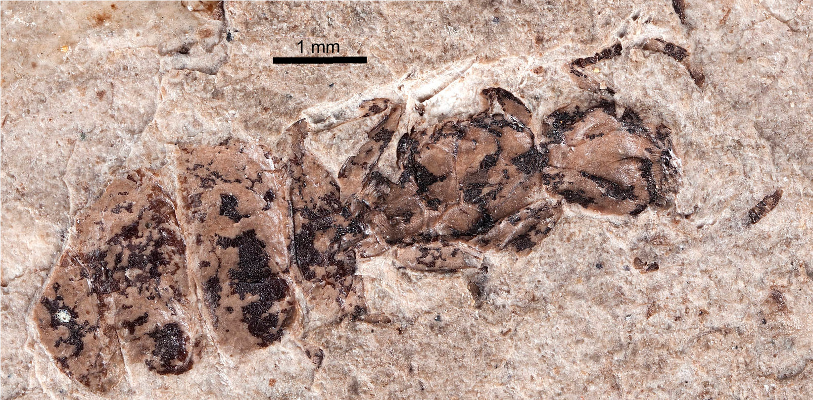 Lateral view of an Elaeomyrmex coloradensis paratype queen. Chadronian, Late Eocene; Florissant Formation, Florissant, Colorado, U.S.A. University of Colorado Natural History Museum, Boulder, Colorado, U.S.A.; specimen UCM17010